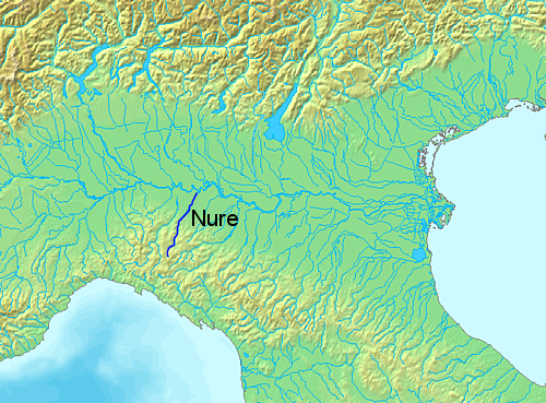 Location of Nure river - Italy